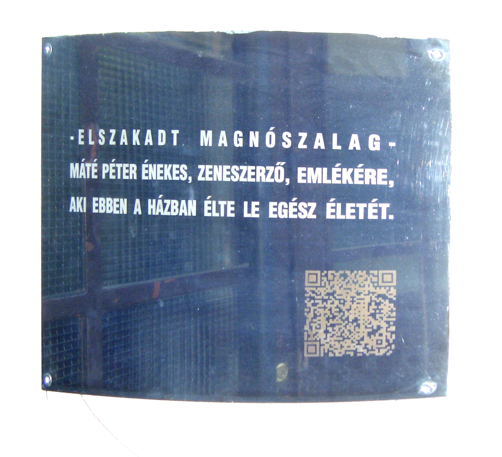 Memorial plaque for Péter Máté (musician, singer), at his former domicile, in the gateway 75 Krisztina körút, Budapest. Erected 2017.